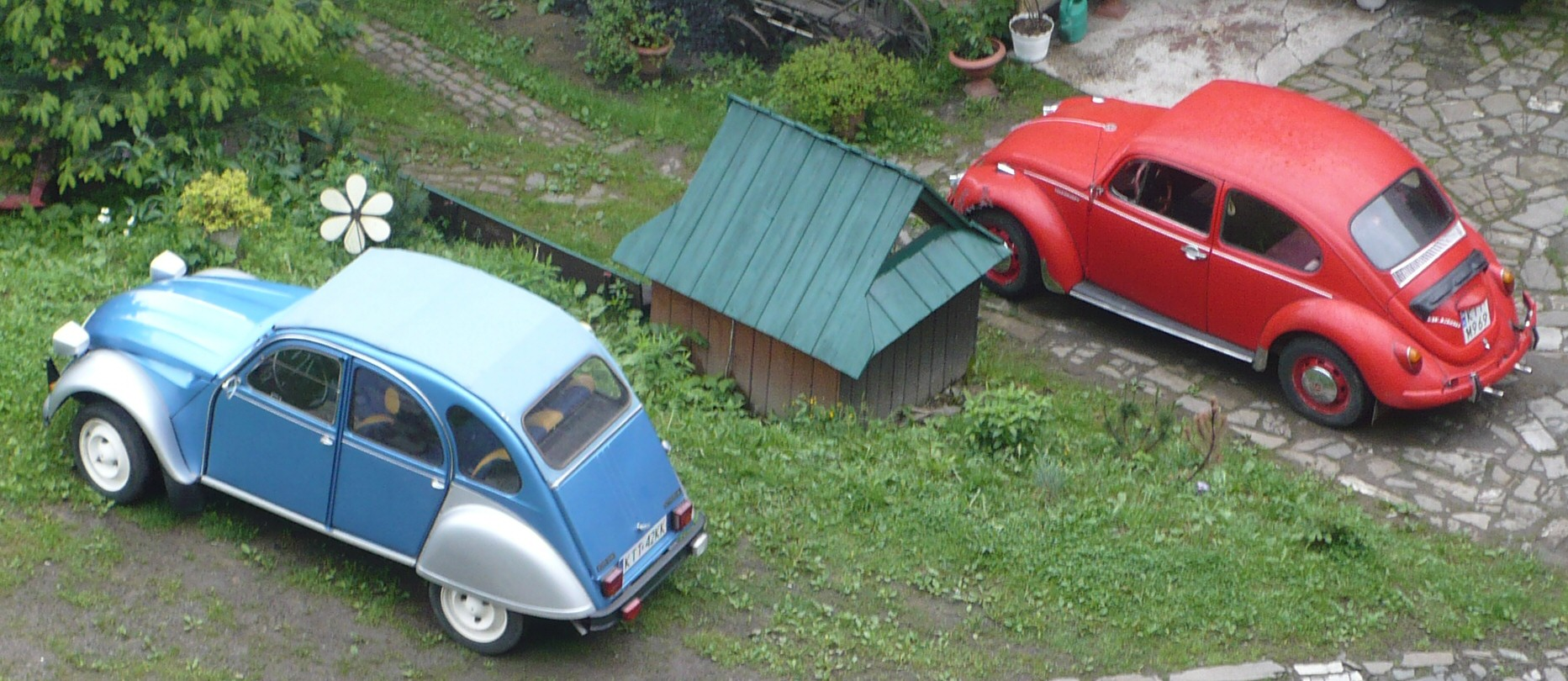 Citroën 2CV vs Volkswagen Beetle